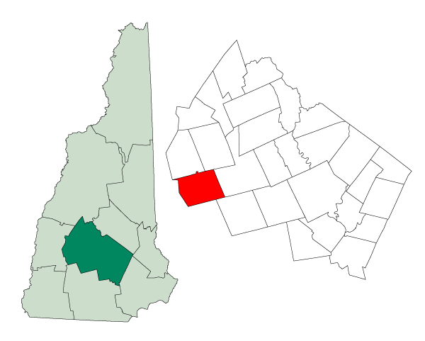 Map of a municipality in Merrimack County, New Hampshire